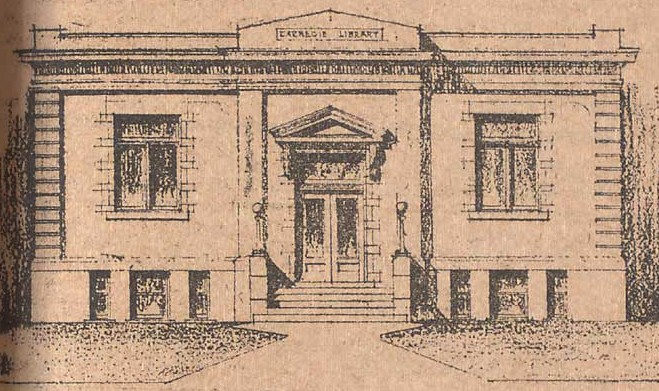 Sketch of the Carnegie Library built in Mimico on Station Rd at Stanley